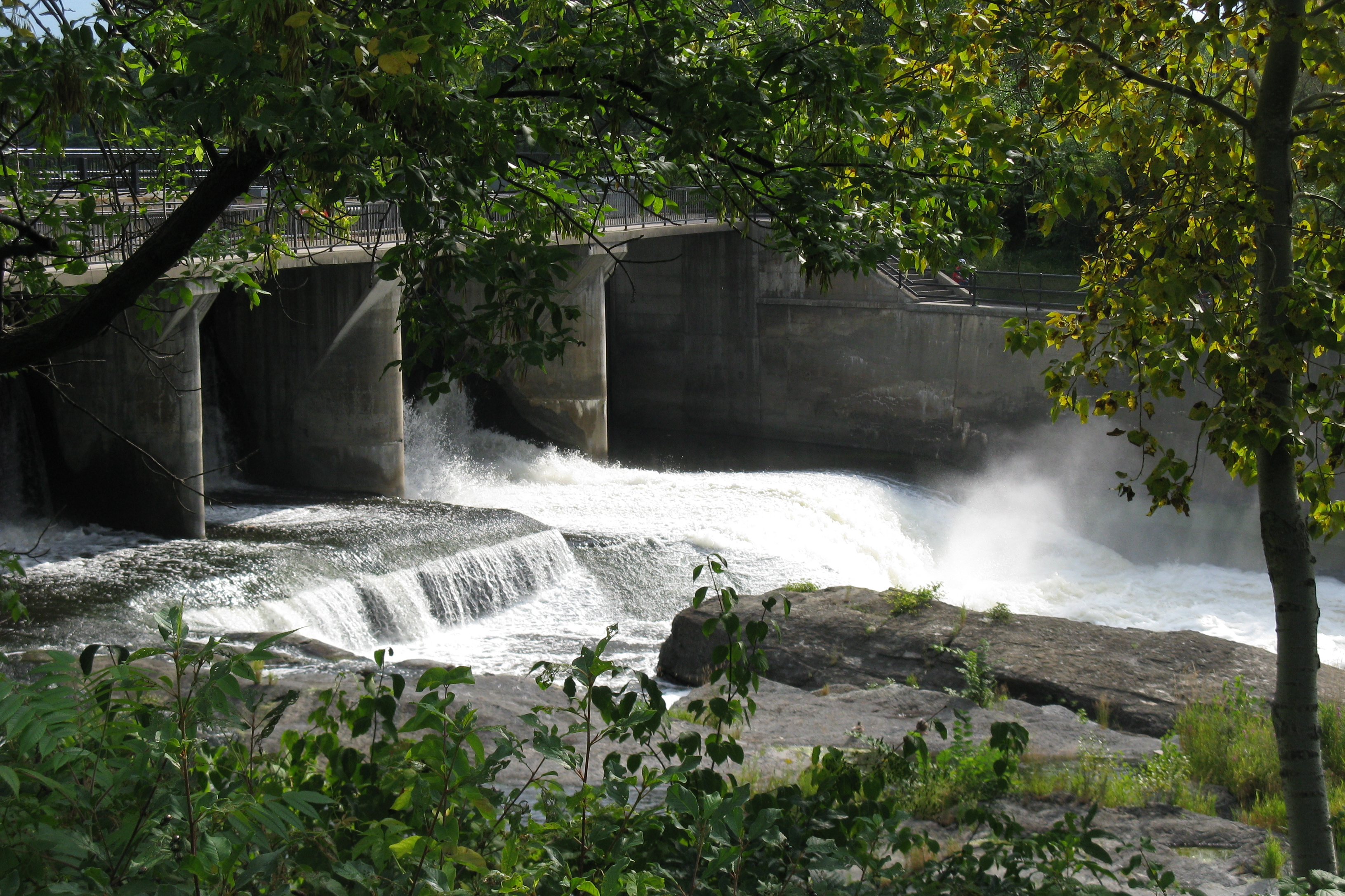 Bridge at Hog's Back Falls in Ottawa, Canada.